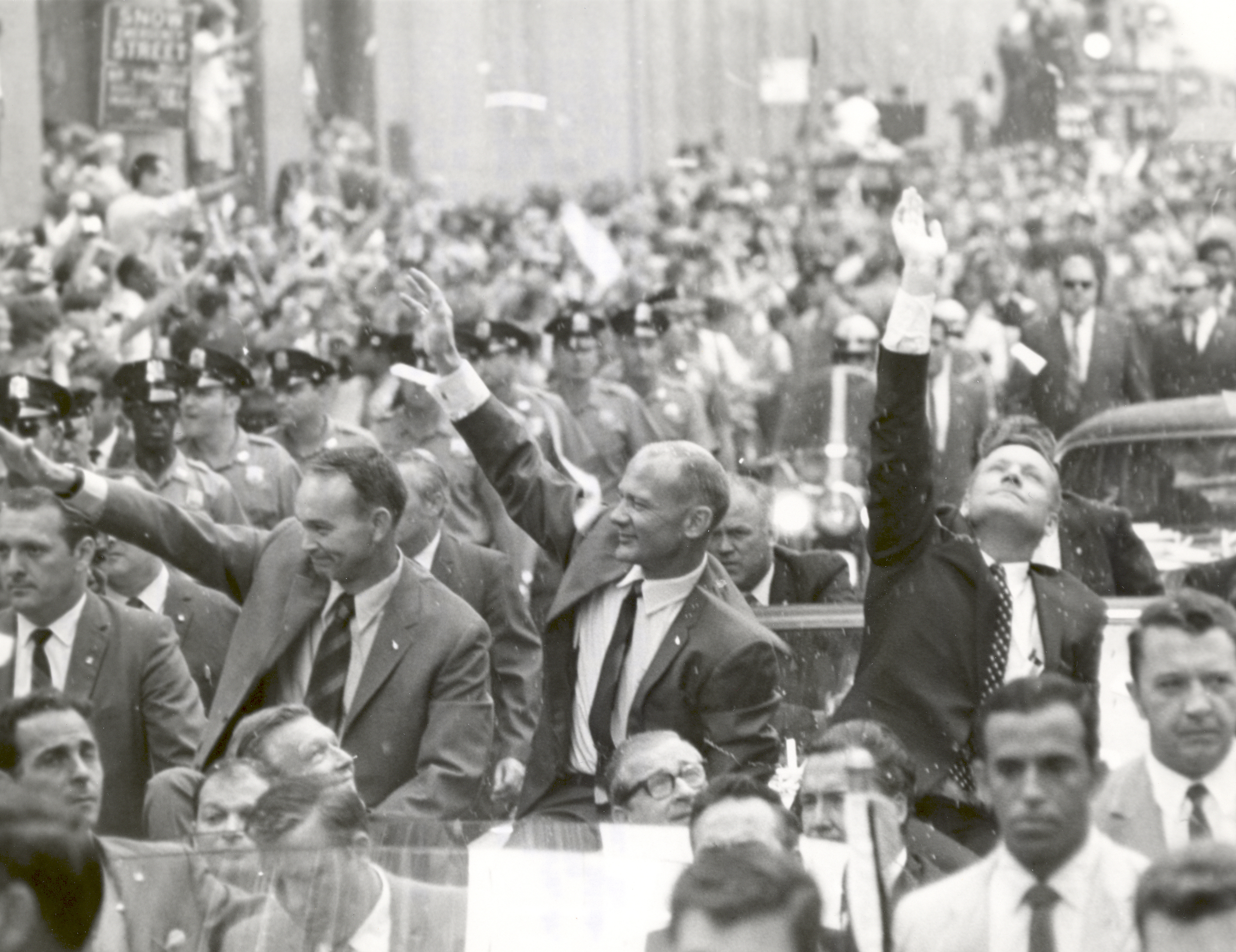 New York City welcomes the three Apollo 11 astronauts, Neil A. Armstrong, Michael Collins, and Buzz Aldrin, Jr., in a showering of ticker tape down Broadway and Park Avenue, in a parade termed at the time as the largest in the city's history.